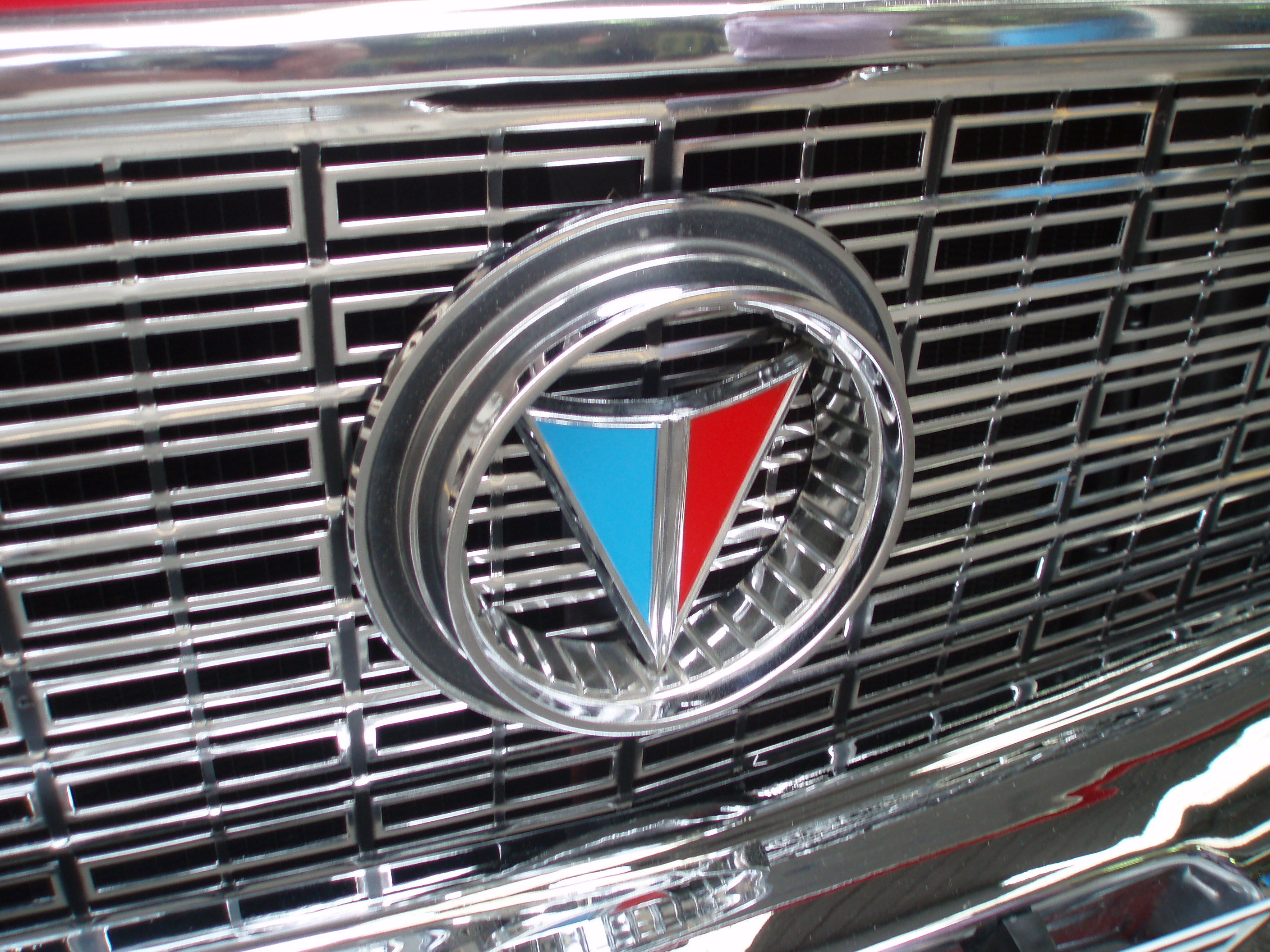 1963 Plymouth Valiant V-200 Signet convertible grille badge. Taken at the 2006 New South Wales All Chrysler Day, held at Fairfield Showground, Prairiewood, Sydney.